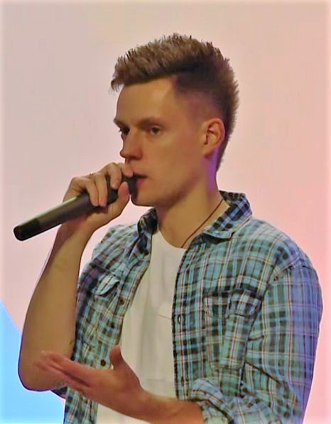 Yury Dud in Nizhnekamsk